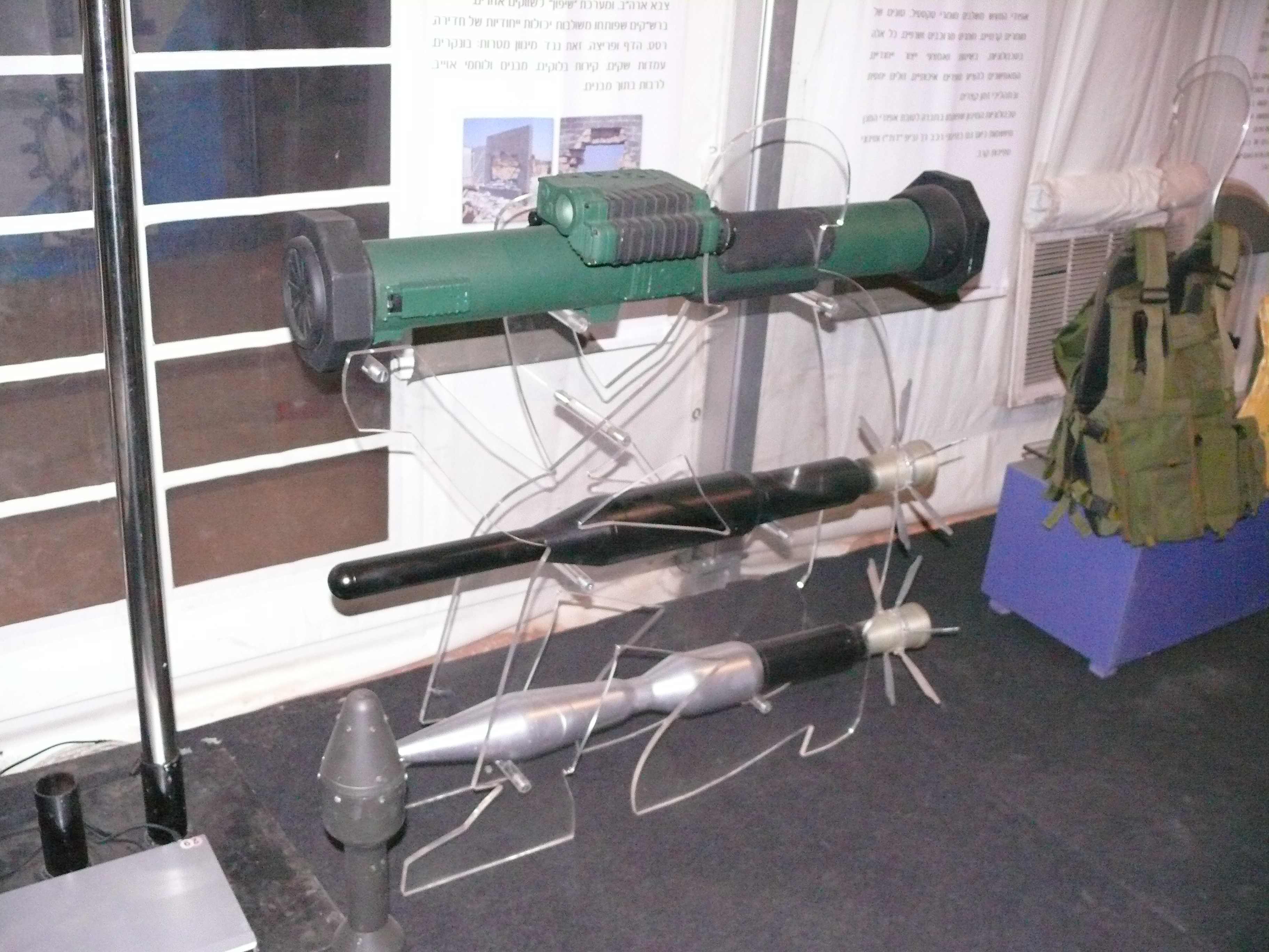 IMI Shipon anti-tank rocket